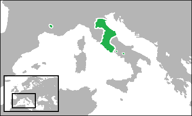 Locator map showing the Papal States, with its enclaves, in the year 1700. (Partially based on Euratlas map of Europe - 1700.)